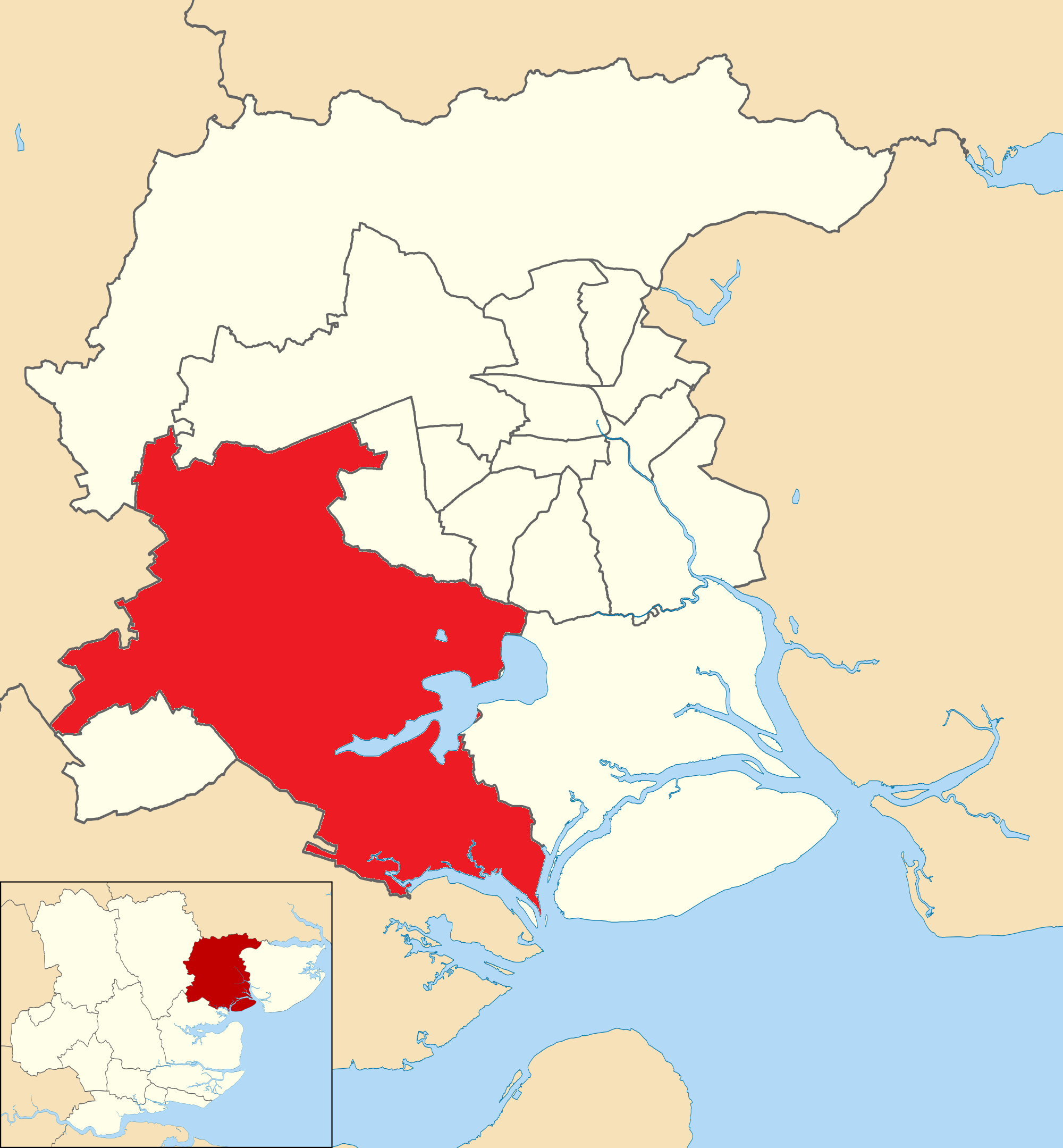 Marks Tey & Layer ward within Colchester Borough